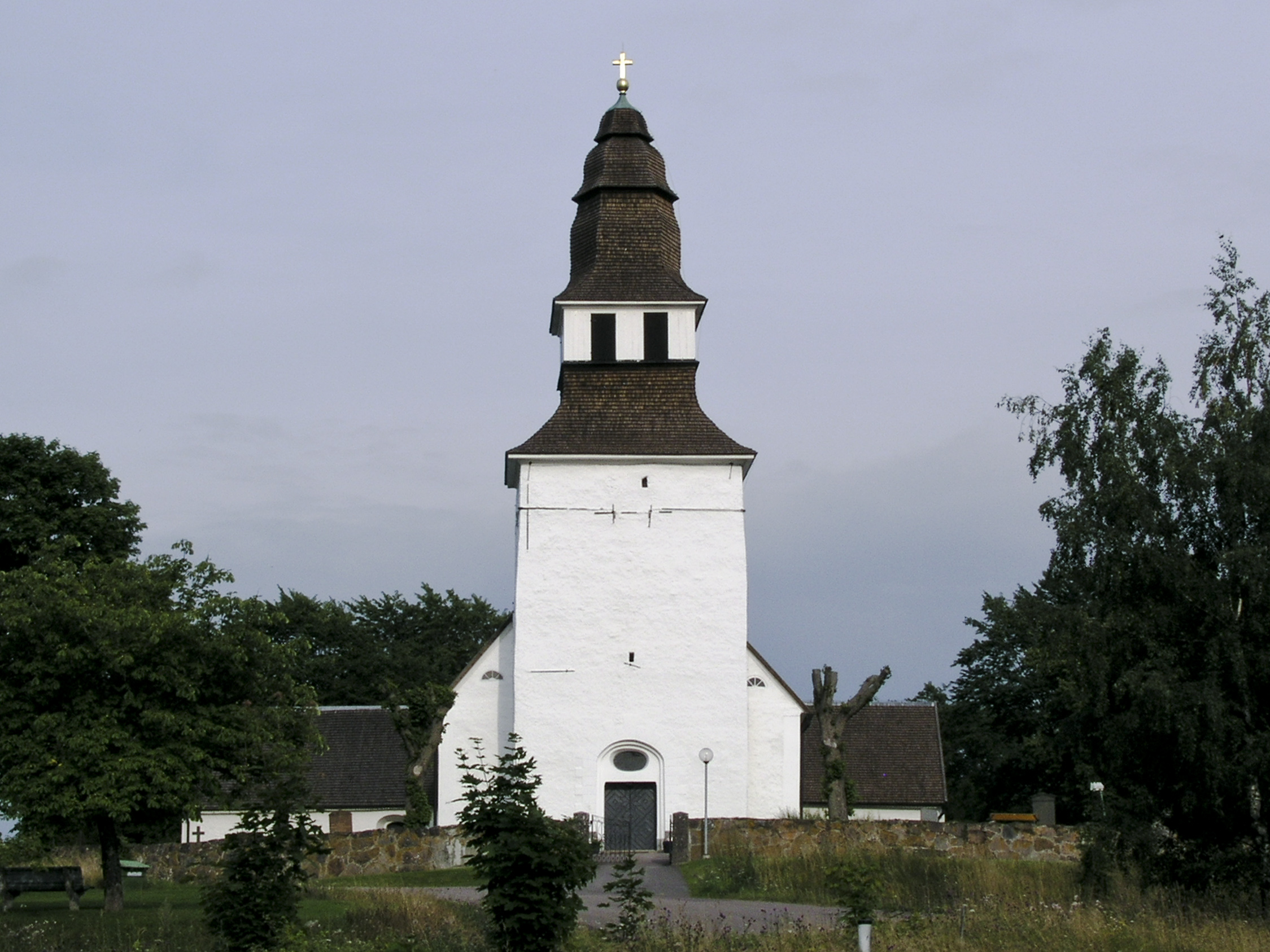 Kristbergs kyrka/church, Diocese of Linköping, Sweden